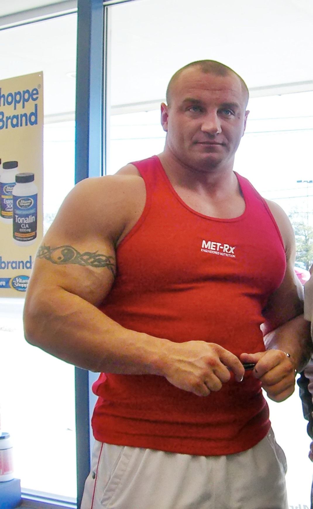 Mariusz Pudzianowski, Strong Man champion. The photo was taken in Milford, CT at a local Vitamin Shoppe.